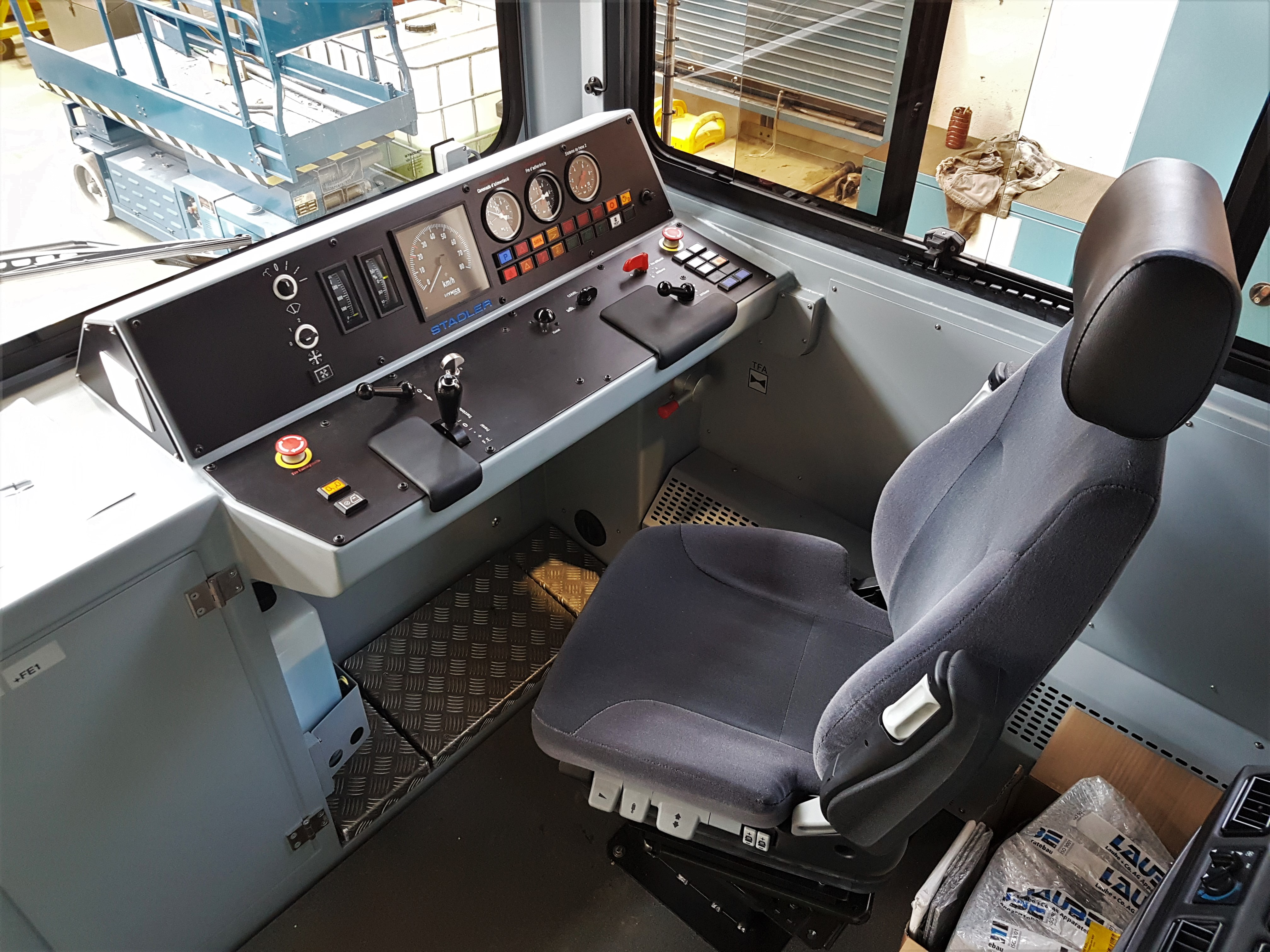 Driving cab of the dual and mixed adhesion-rack locomotive 256.01 of the Ferrocarrils de la Generalitat de Catalunya.